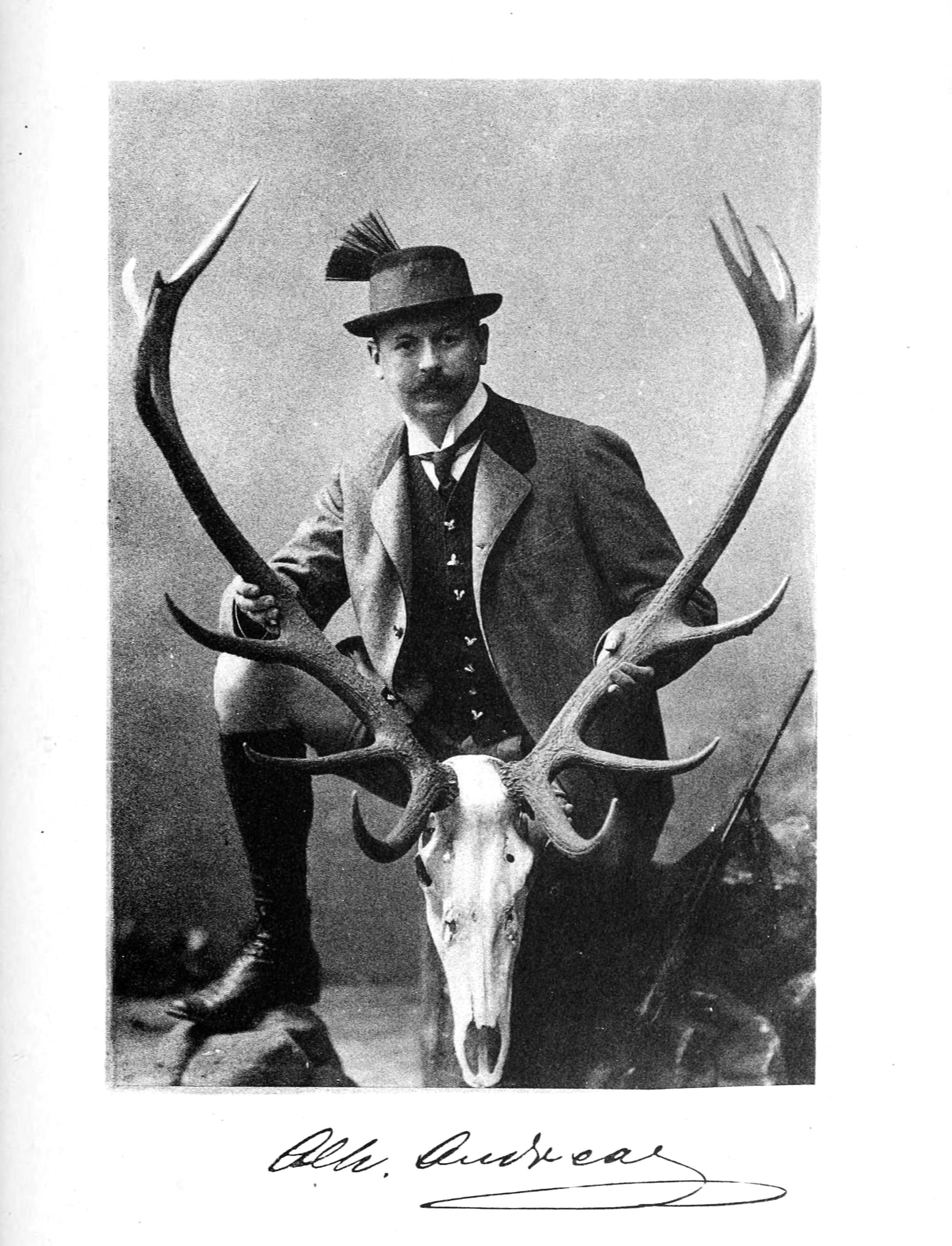 Alhard Andreae (1861-1916)